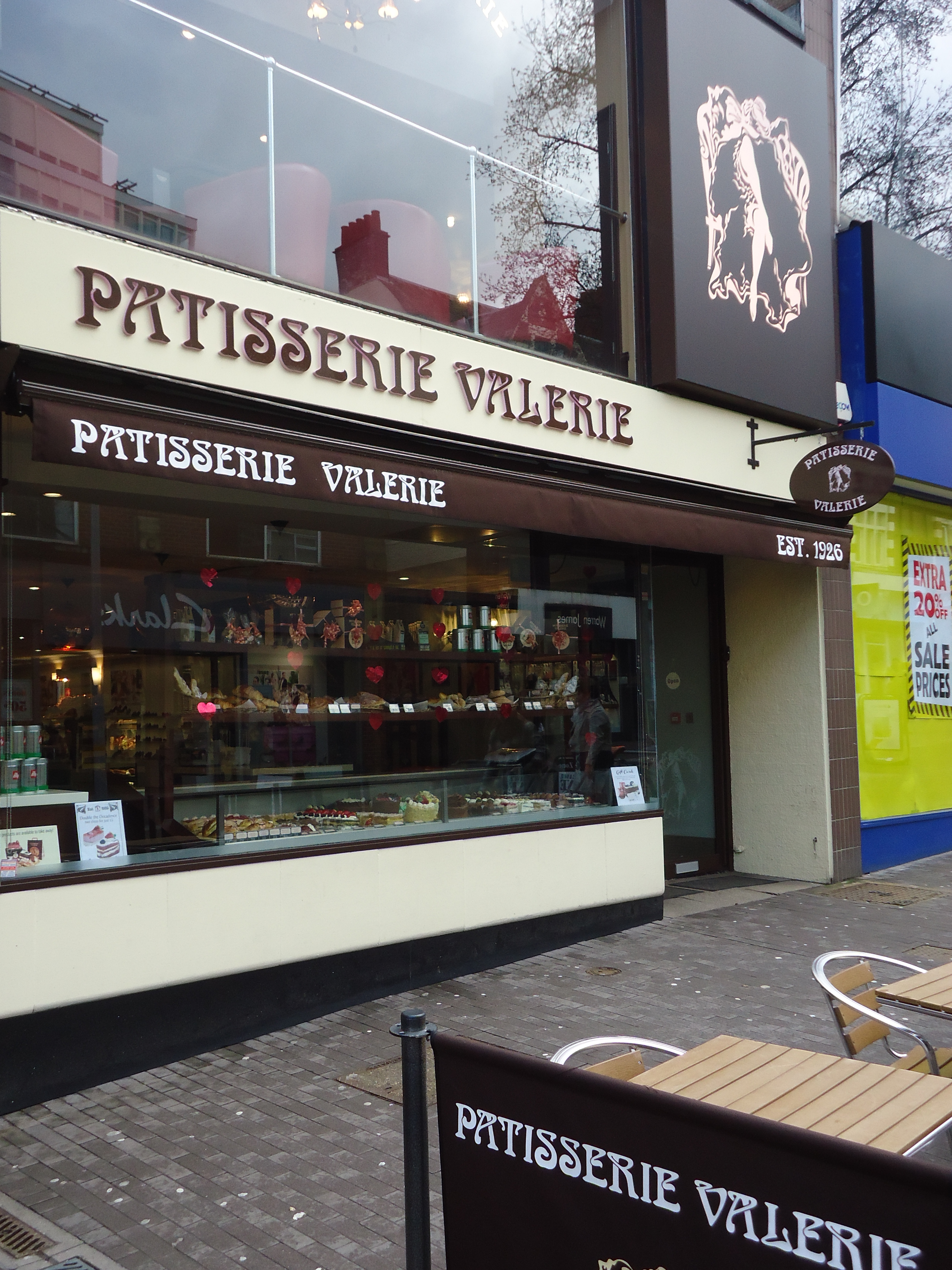 Sutton's branch of this patisserie / restaurant that was founded by a Belgian lady in the 1920s.